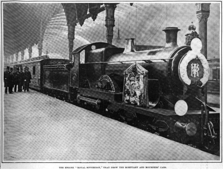 Atbara Class locomotive no. 3373, temporarily renamed Royal Sovereign, when it hauled the Royal Funeral Train from Paddington on 2 February, 1901.